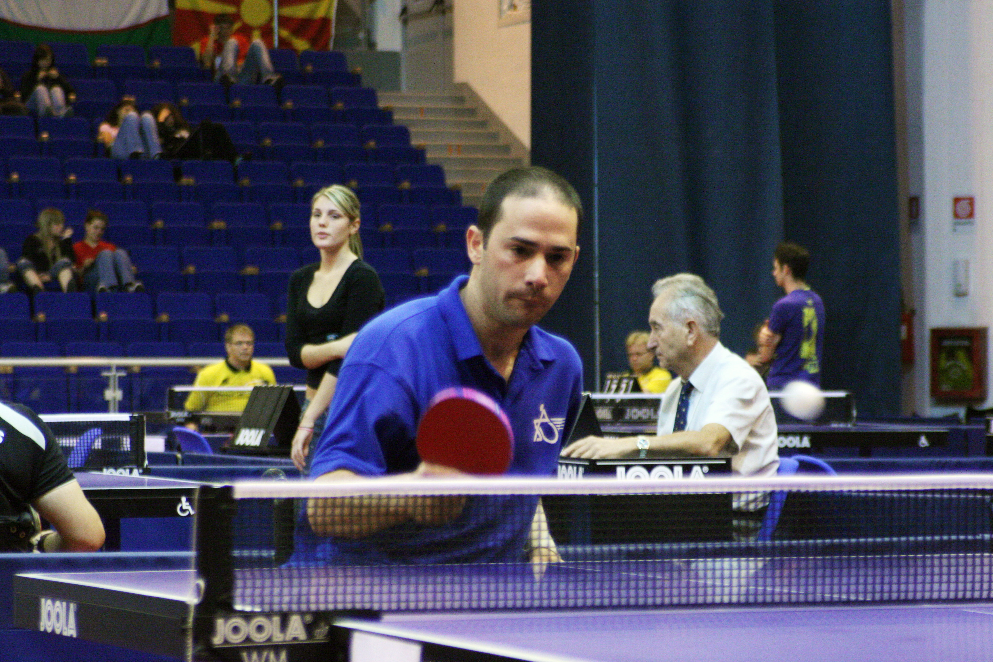 Liran Geva - 2005 European Table Tennis Championships for the disabled in Jesolo (Italy). Between September, 16th and 25th.